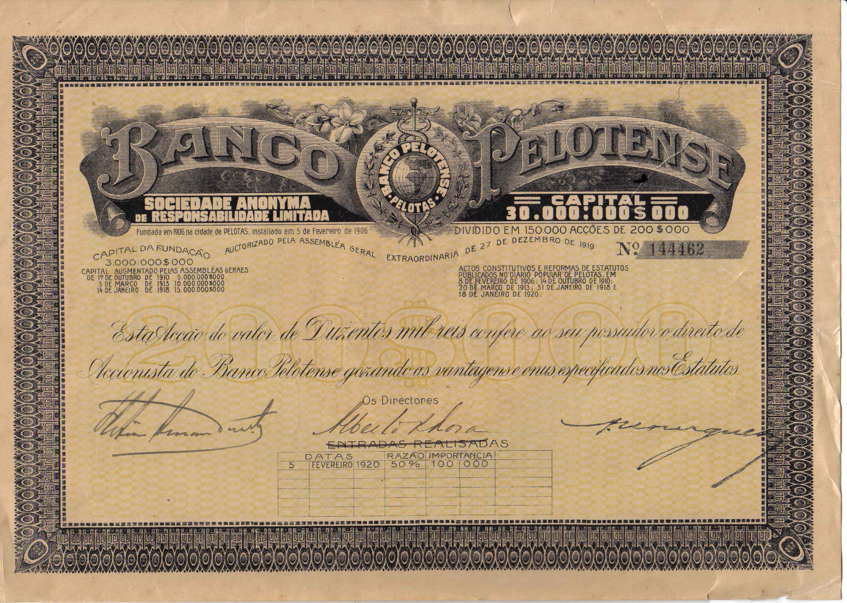 facsimile of a Banco Pelotense bond share. Banco Pelotense is a bank which is today closed out. The bond share is of property of mine (the uploader) and scanned by myself.